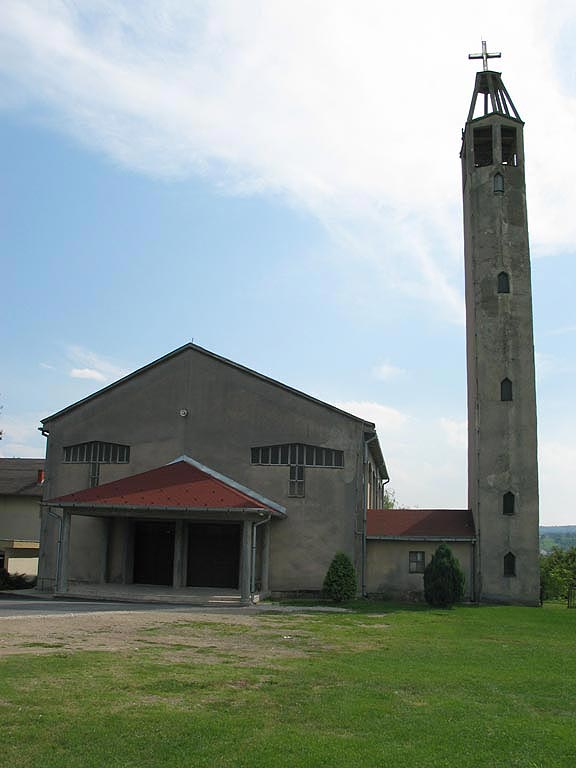 St. Joseph church , Špionica